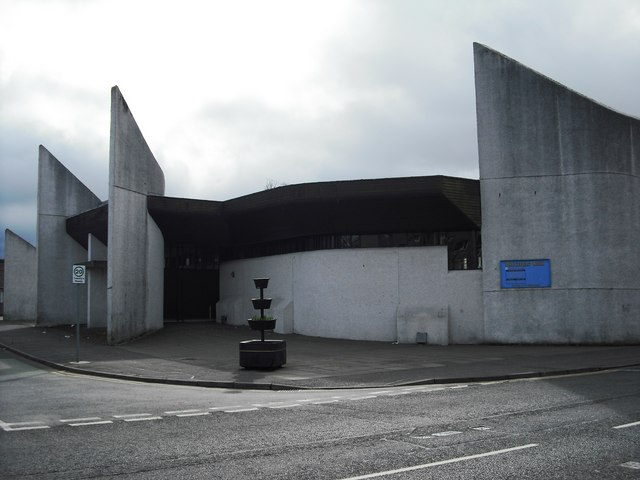 Brucefield Church The unusual design of this church opened in 1966 has recently been designated an 'A' listed building.